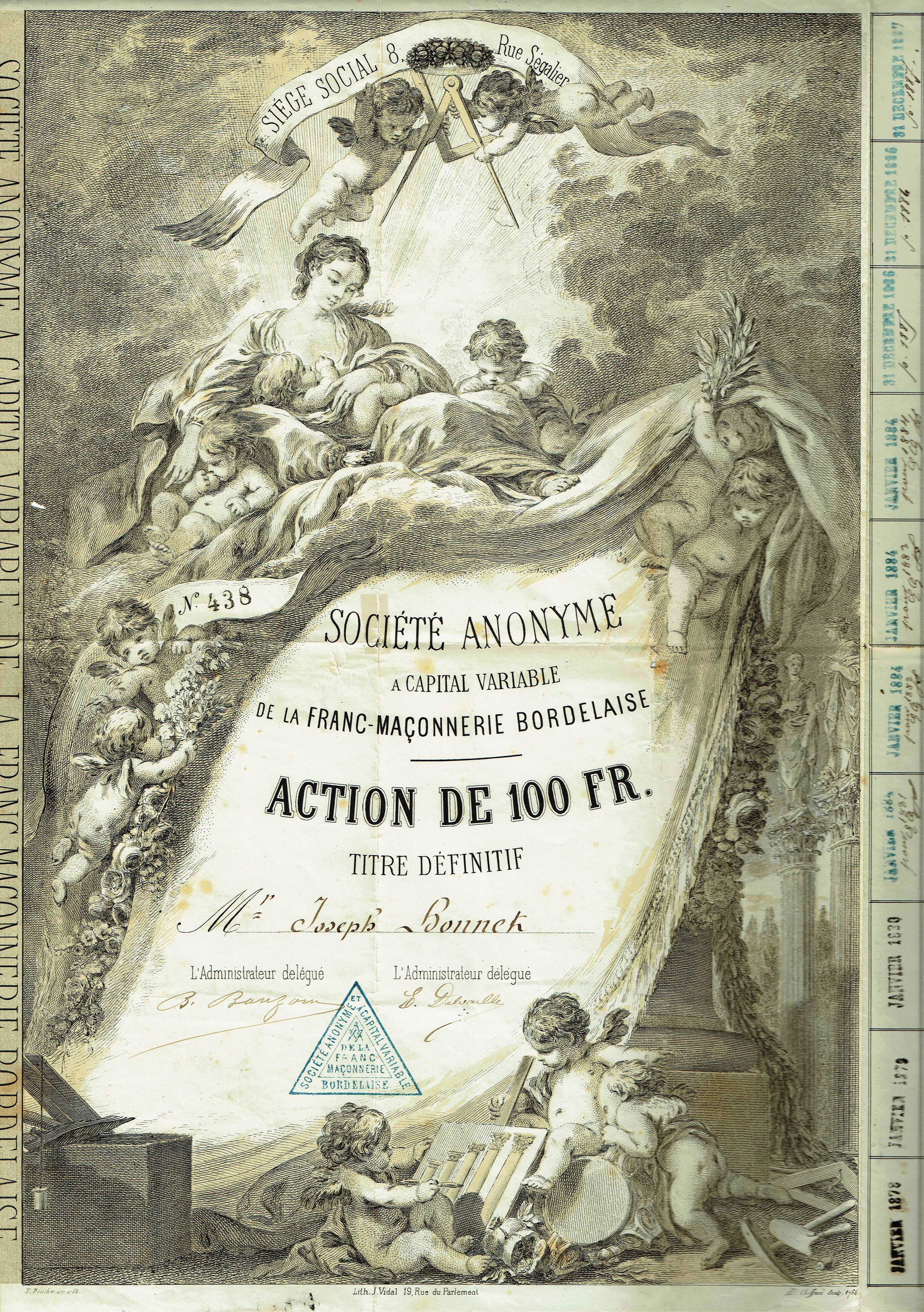 Share of the S. A. de la Franc-Maconnerie Bordelaise, issued in January 1878; template created by François Boucher